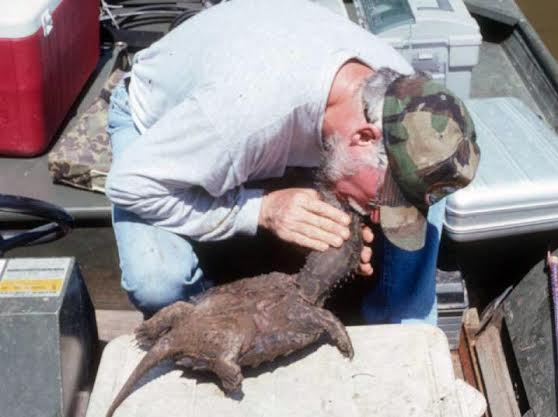 Stan Trauth gives mouth-to-nose resuscitation to an Alligator Snapping Turtle that almost drowned in a turtle net after the water rose over night. The turtle revived and crawled off.